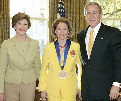 2006 National Medal of Arts recipient and dancer, actress Cyd Charisse accepts her award from President George W. Bush and Mrs. Laura Bush in an Oval Office ceremony on November 9, 2006. Ms. Charisse's citation reads, "An American icon, she has entertained millions throughout her career with her many stunning performances." White House photo by Paul Morse